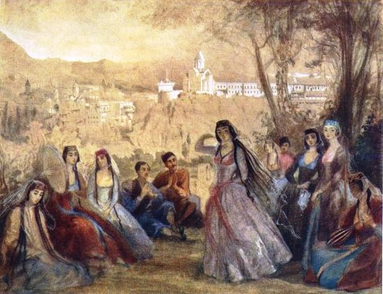 G. Gagarin. Georgian women dancing the traditional "Lezginka". Those depicted on the painting are: Prince Alexander Chavchavadze (applauding) and his three daughters, renowned beauties: Ekaterina, Nina and Sofia (dancing).